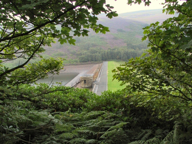 Brushes Reservoir. A glimpse, through the trees and bracken, of the Dam at Brushes Reservoir, Stalybridge.